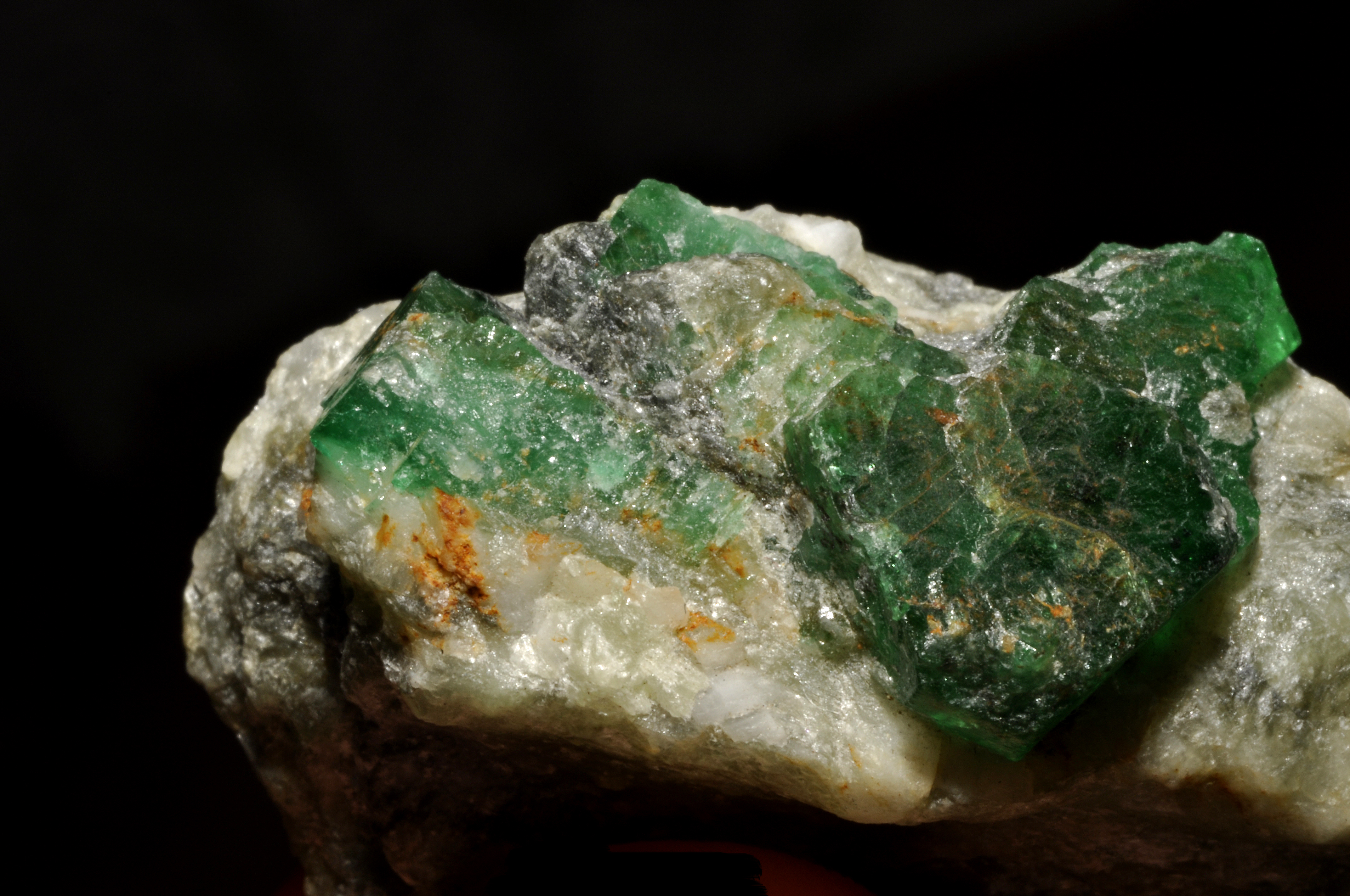 beryl var. emerald : Bazarak District, Panjsher Province (Panjsheer Province ; Panjshir Province ; Panjsher Valley ; Panjshir Valley), Afghanistan